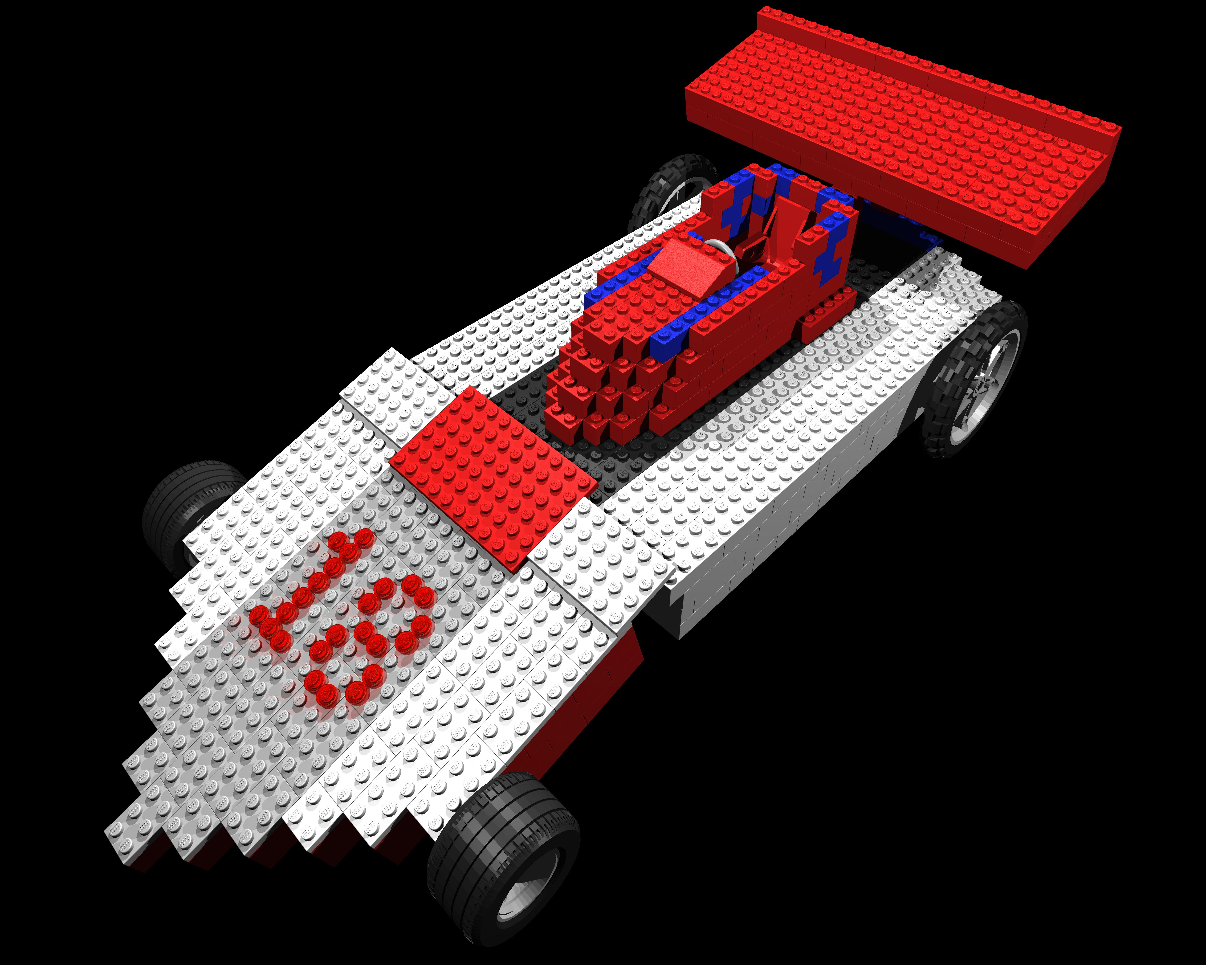 This is a model of a racecar, digitally rendered out of Lego.